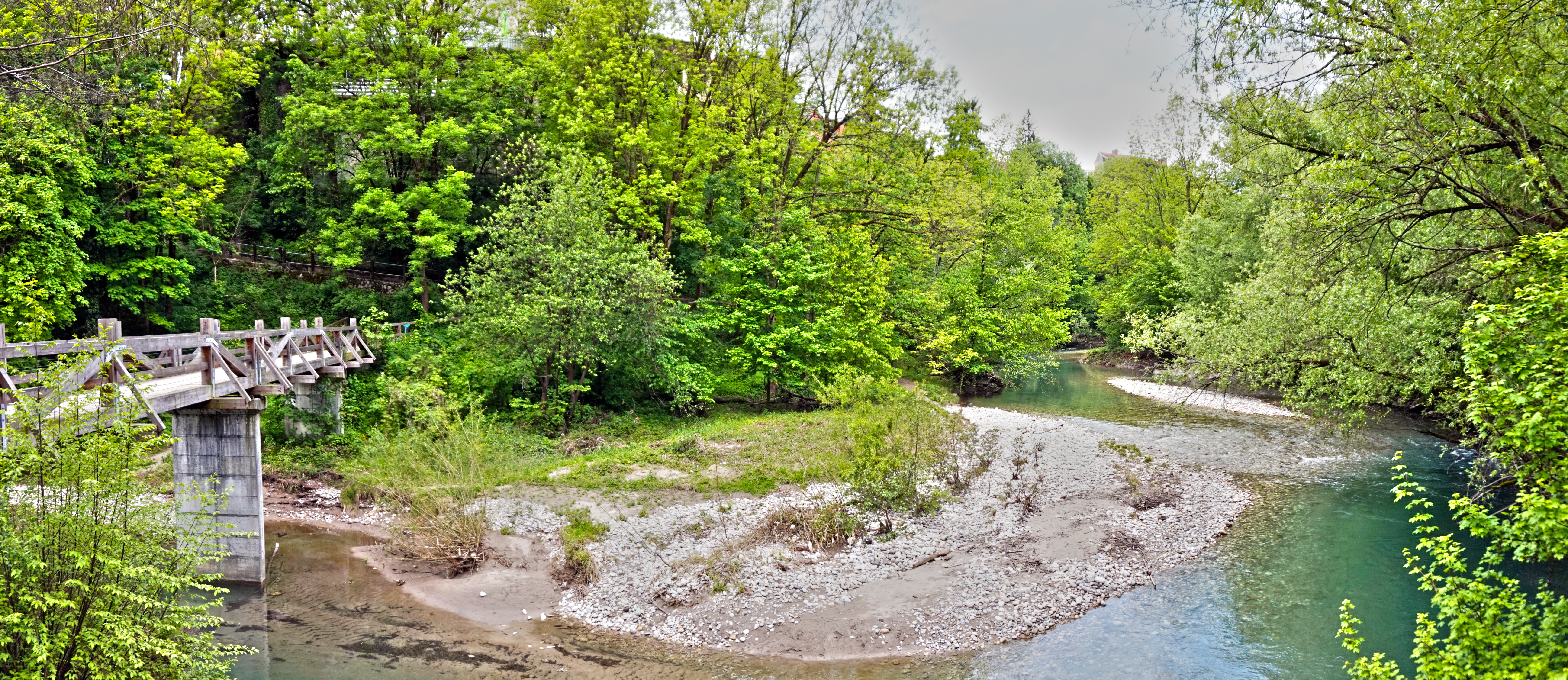 Kokra Canyon in Kranj, Slovenia. This photograph was taken with a Sony Alpha a5000.